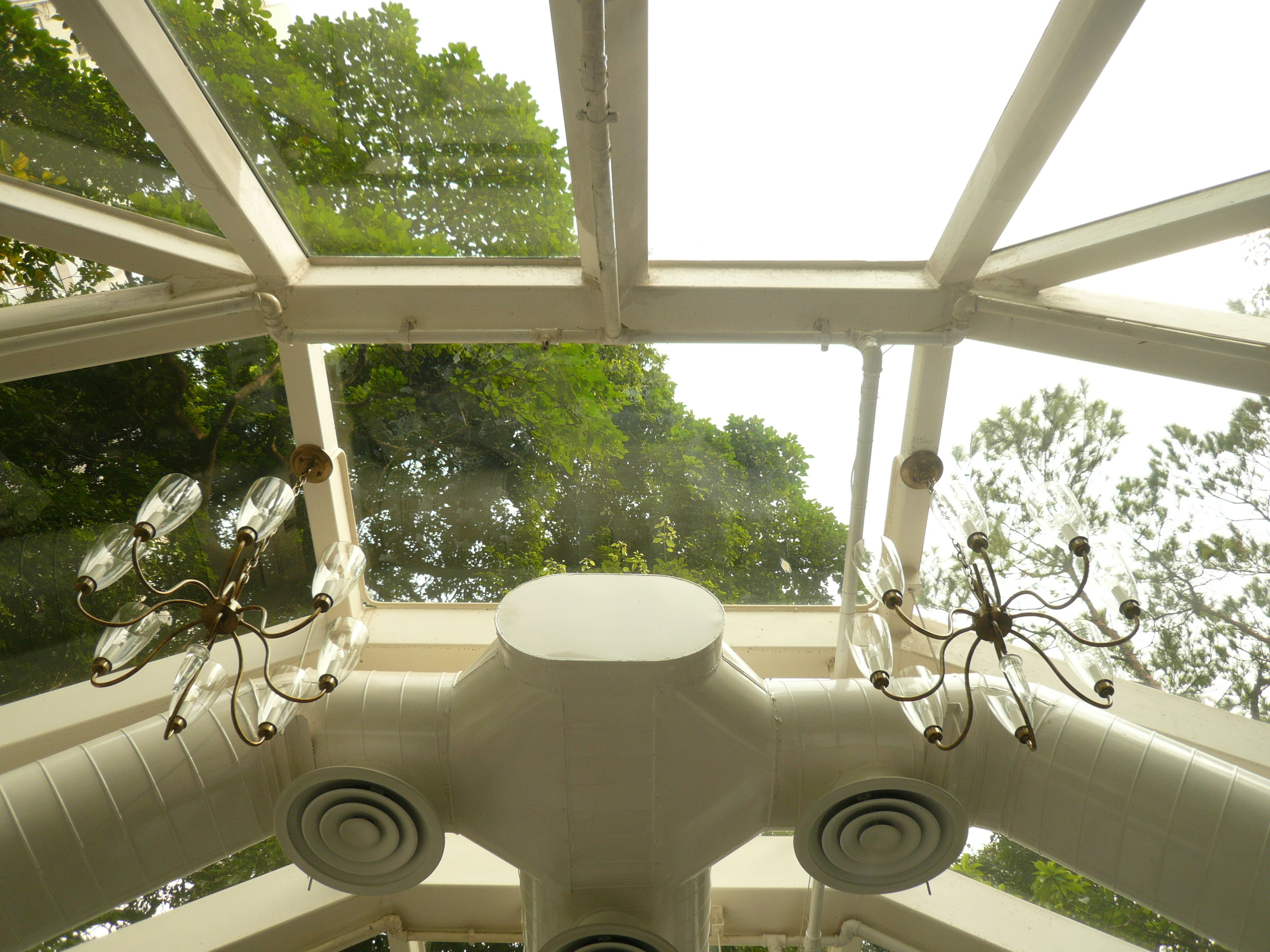 Renovation of Central Ordinance Munitions Depot